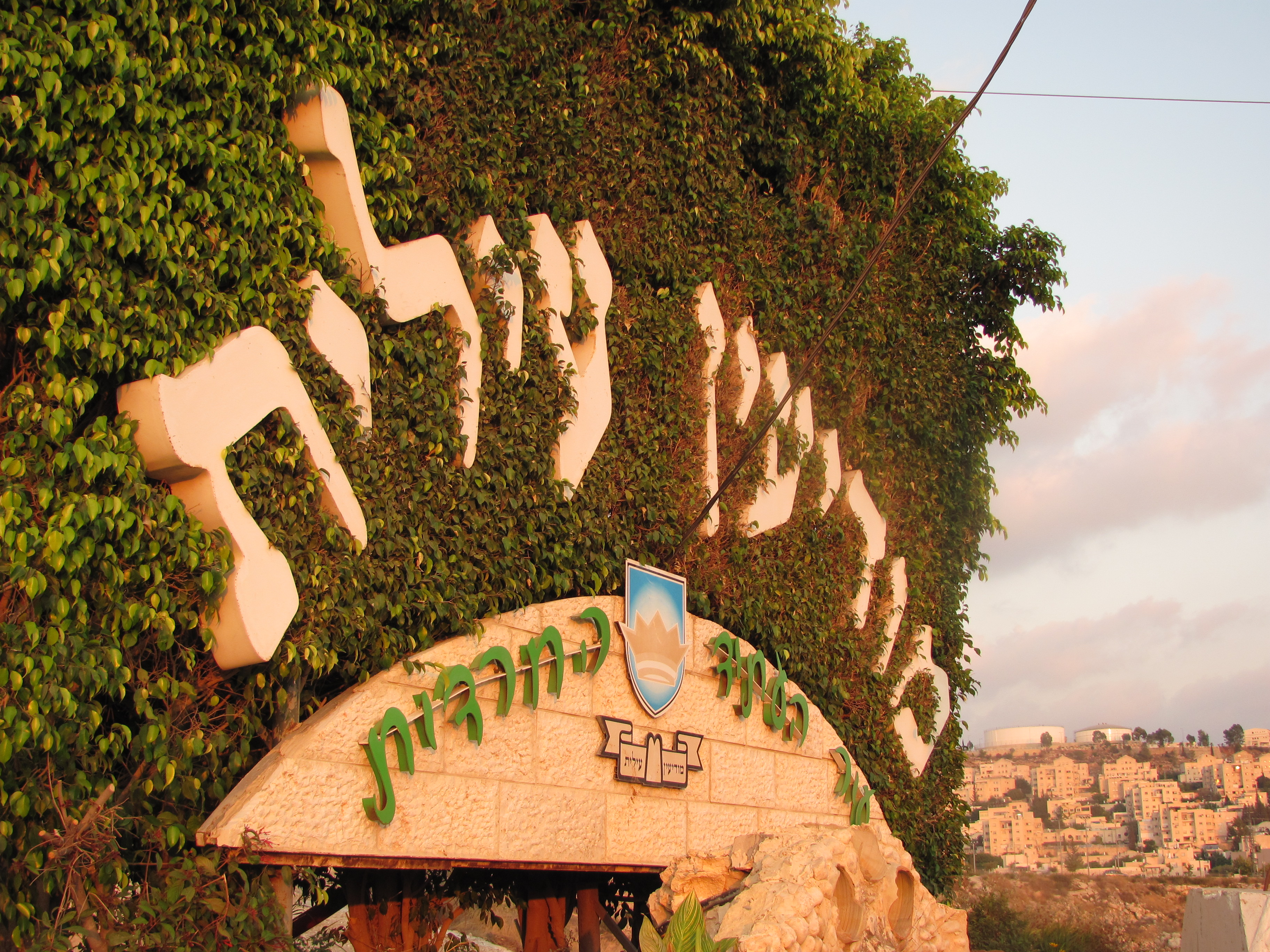 Welcome sign outside the entrance to Modi'in Illit, with homes of Kiryat Sefer in the background. The words "Modi'in Illit" are written in large Hebrew letters on a background of grass. The wording on the stone section of sign reads: "Haredi City of the Future".